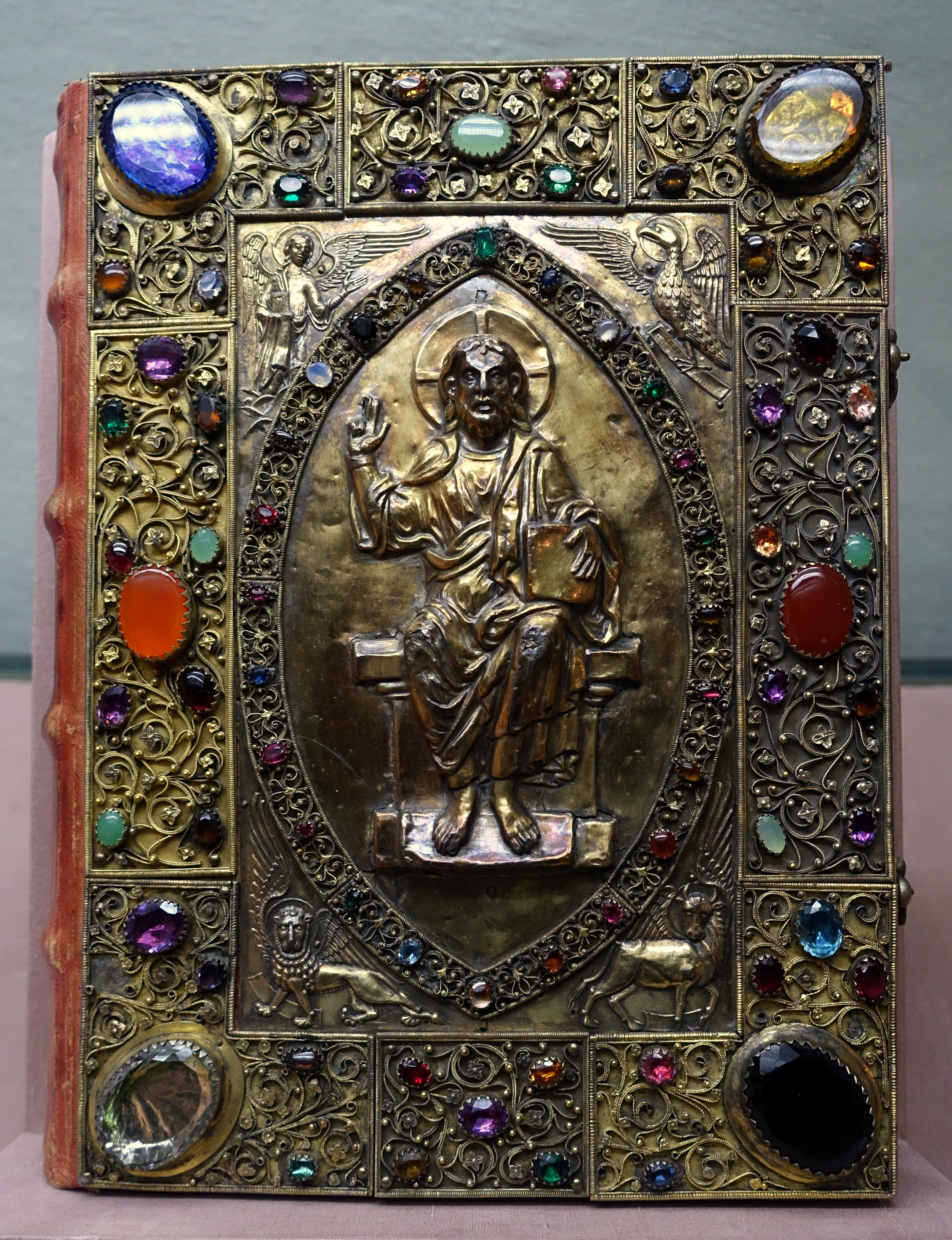 Exhibit from the Herzog Anton Ulrich-Museum, Braunschweig, Germany. This work is in the public domain because the artist died more than 100 years ago.